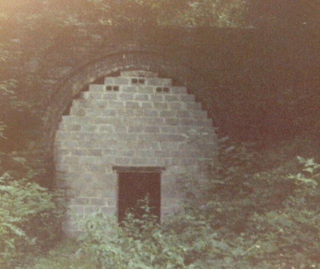 Allt-y-Cefn Tunnel. Eastern portal of the 168yd, single track Allt-y-Cefn (Llangeler) tunnel on the former GW line between Pentrecourt and Llandyssul, taken in 1980. Apologies for the poor picture quality - blame the Welsh weather!